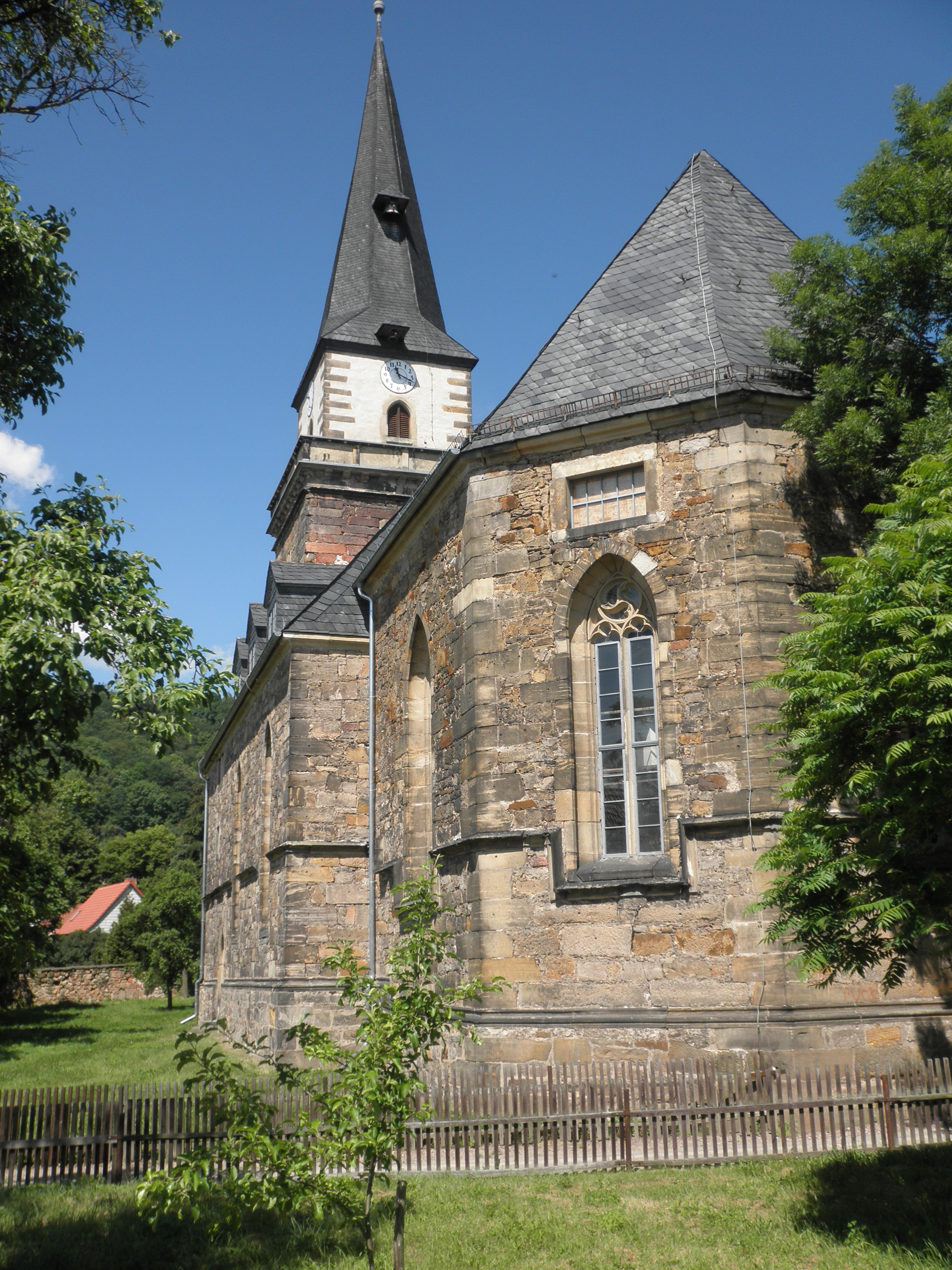 Church in Seebergen (Thuringia)